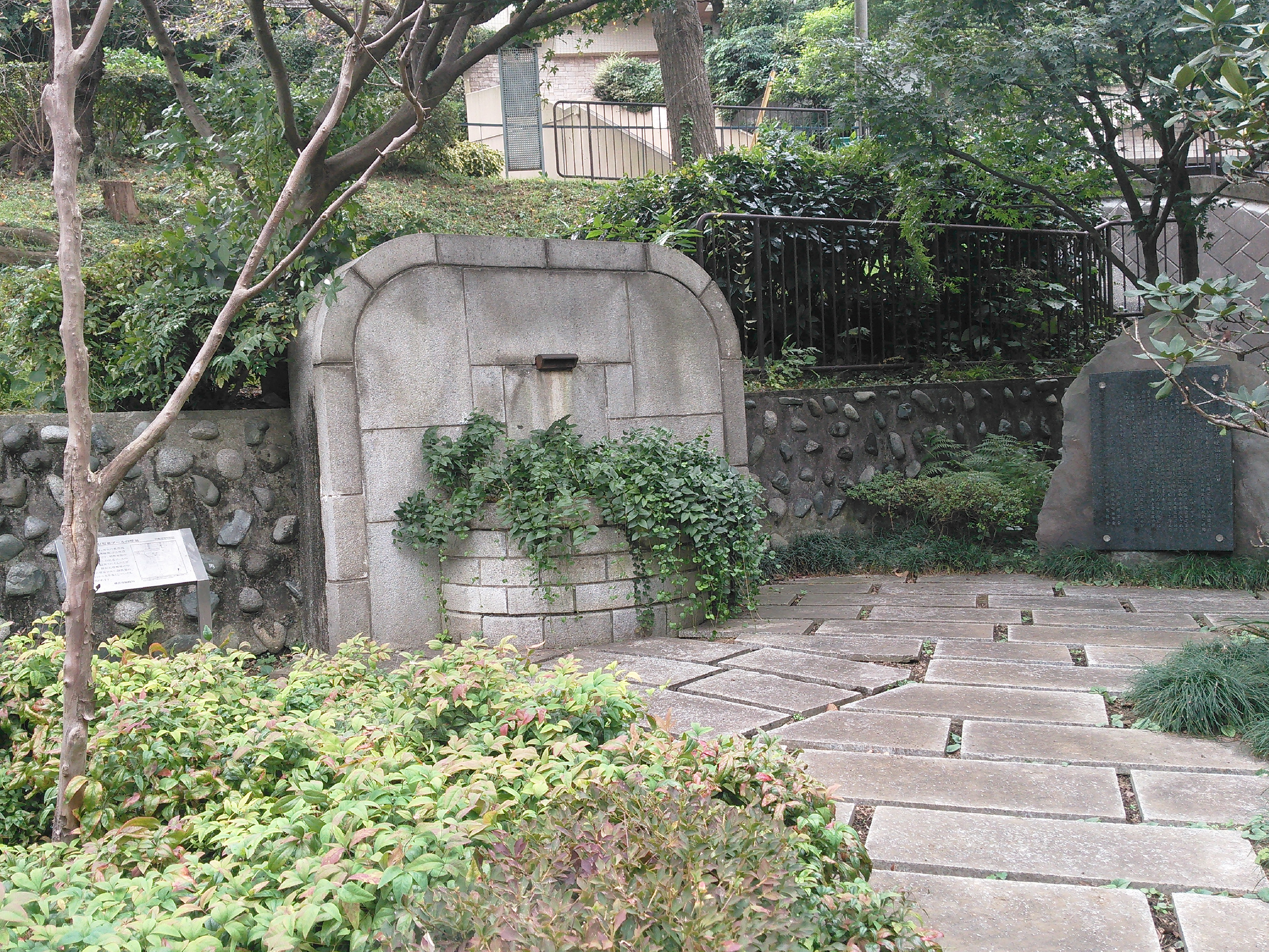 Wall mounted fountain and Monument of Taishō Katsuei in Motomachi park, Yokohama